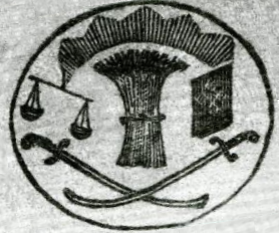 Flag and seal of the "Mudafia" (Defence) Party